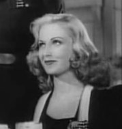 Cropped screenshot of June Lang from the film Stage Door Canteen.